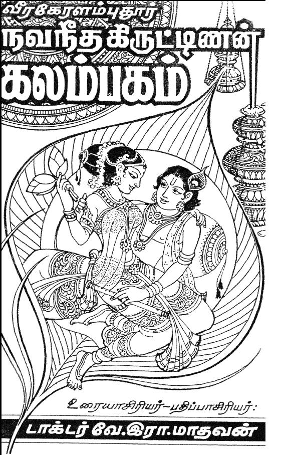 History of Veerakeralampudur